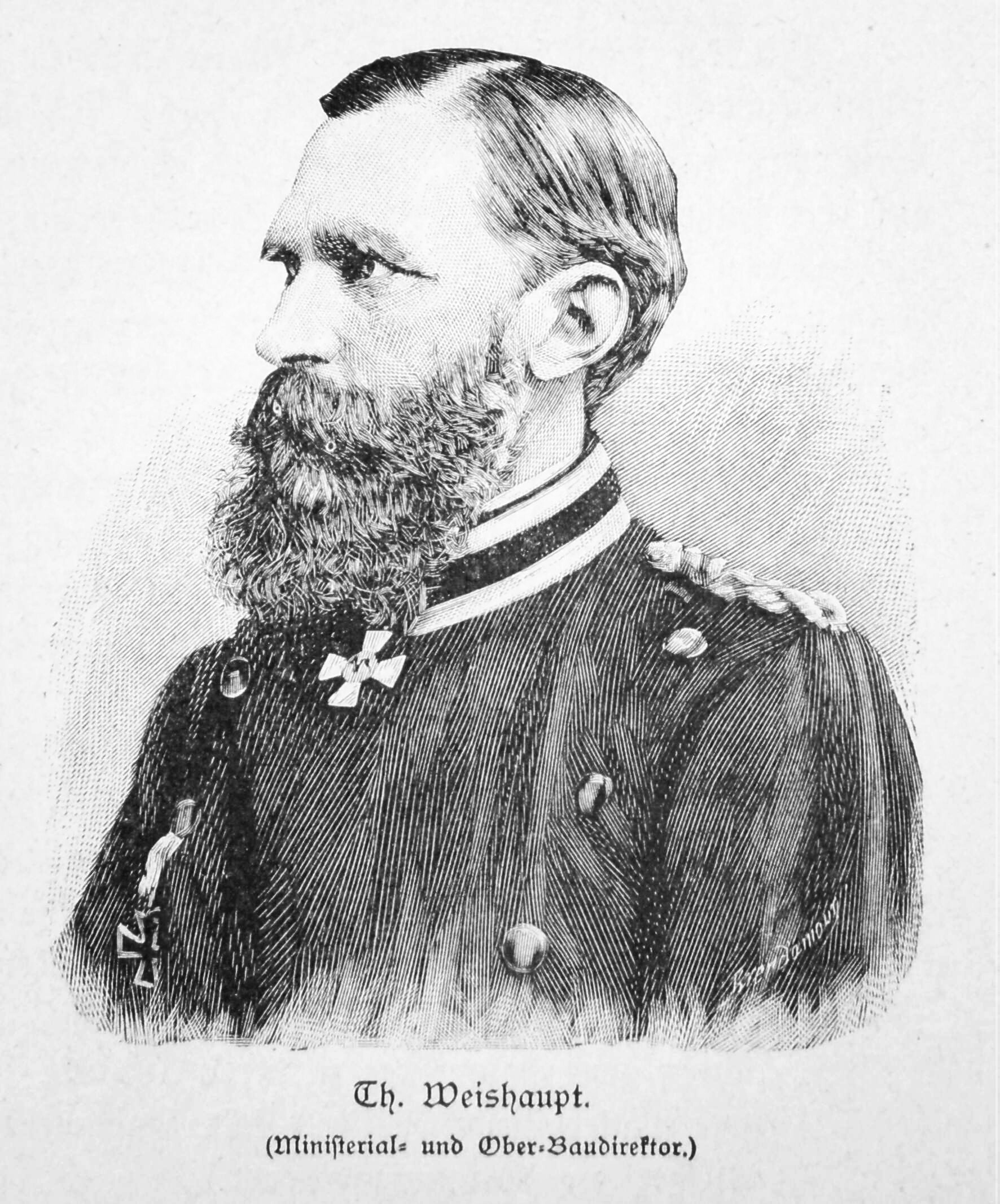 ministerial senior building director Th. Weishaupt